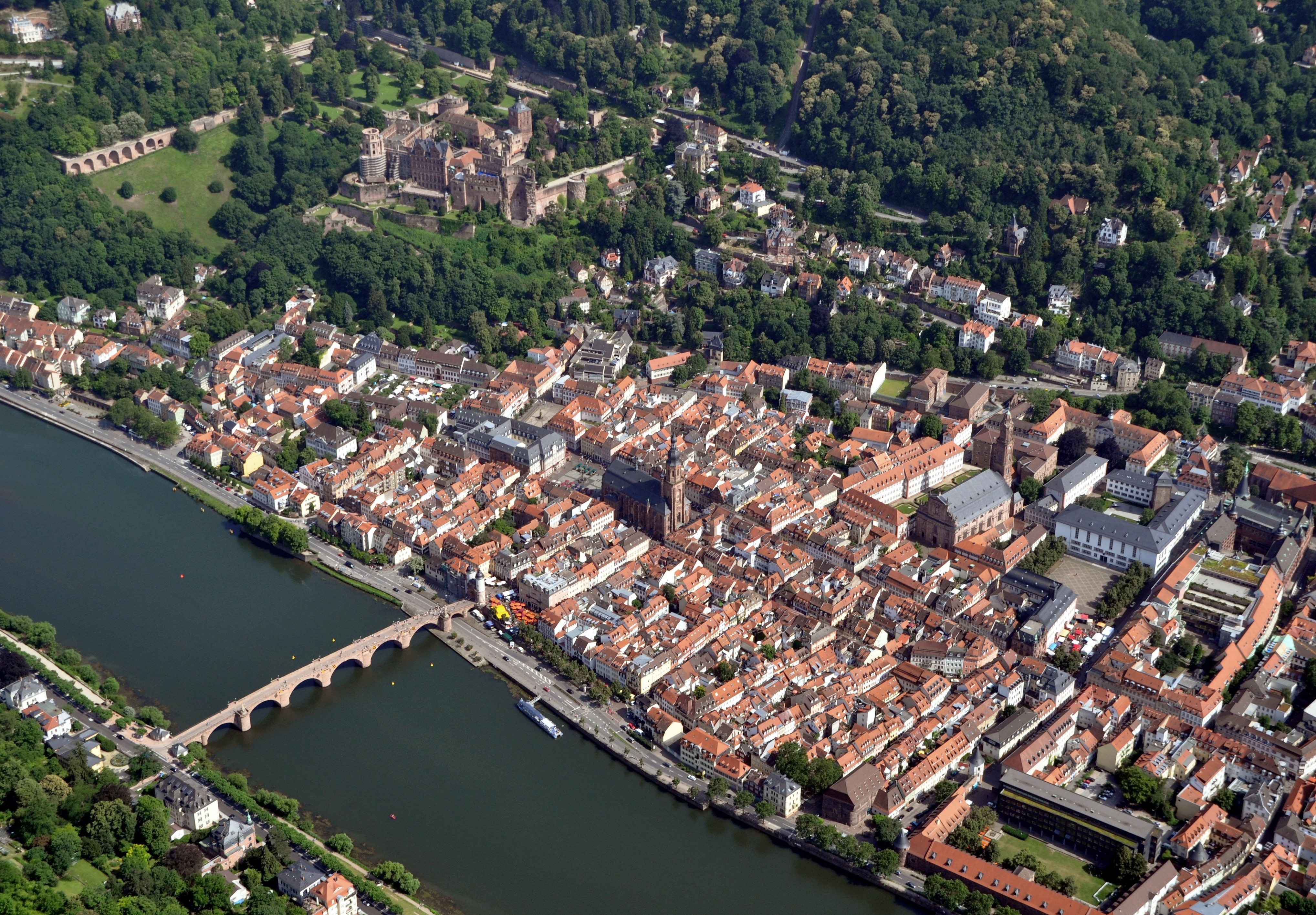 Aerial photograph of the old town of Heidelberg, Germany